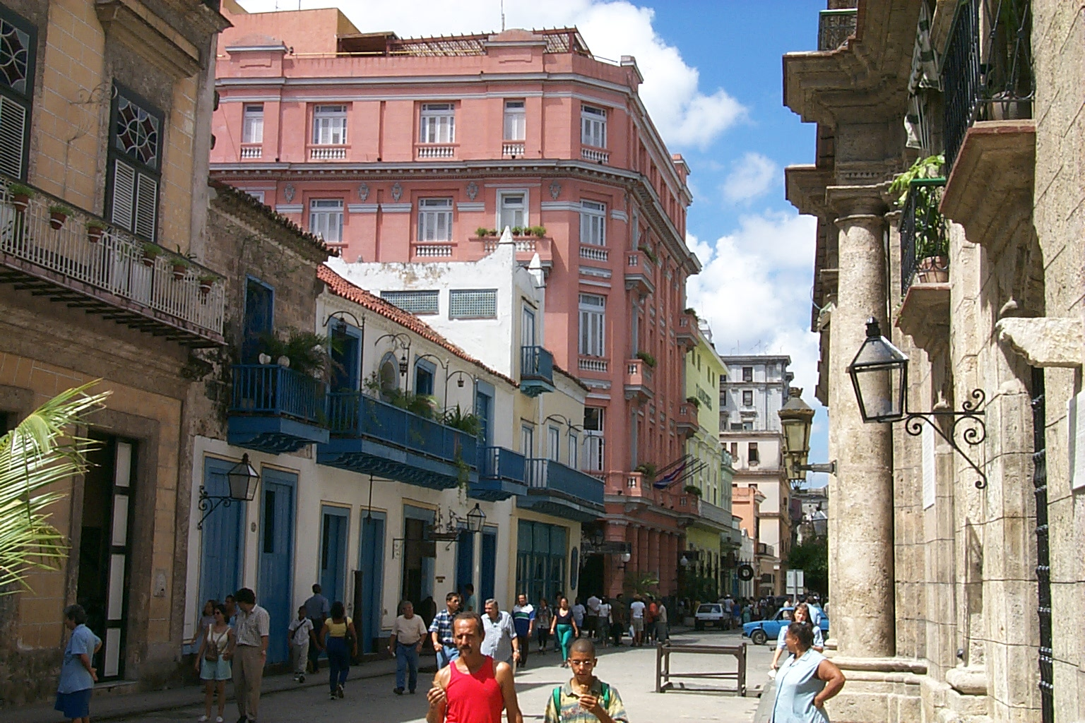 Calle Obispo with the Hotel Ambos Mundos (Hemingway's haunt), Havana, Cuba